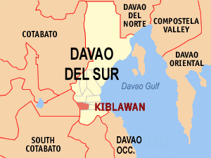 Map of the Davao del Sur showing the location of Kiblawan